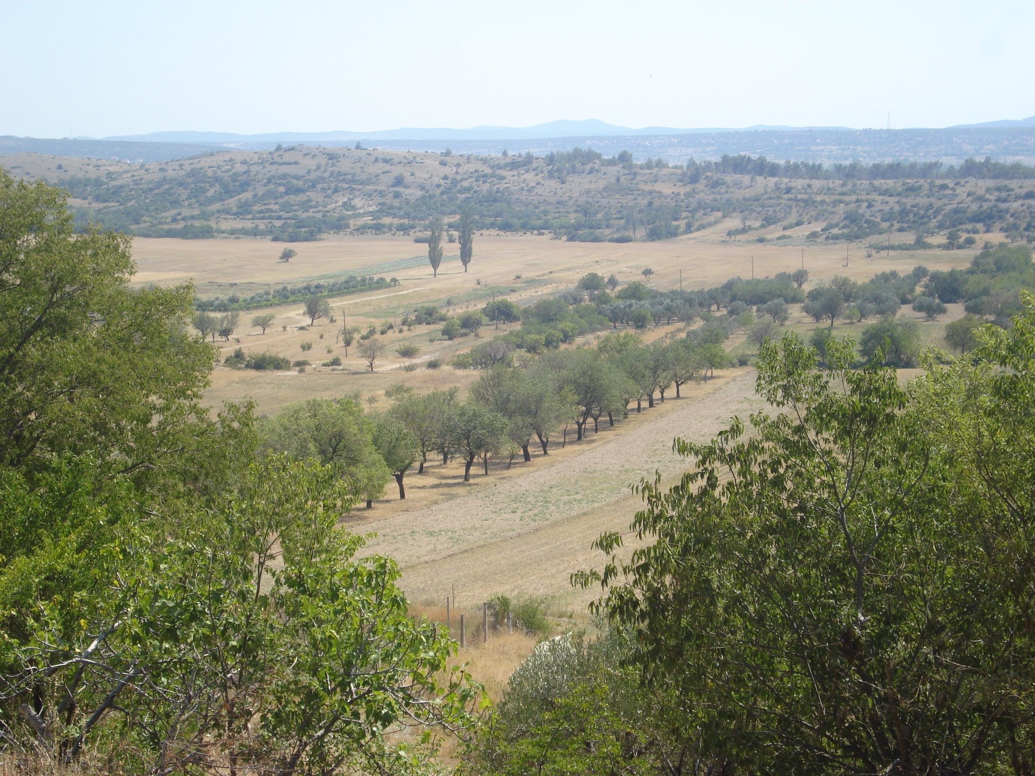 Ravni kotari, geographical region in the northern part of the province of Dalmatia (Republic of Croatia) - south view from the Ostrovica village